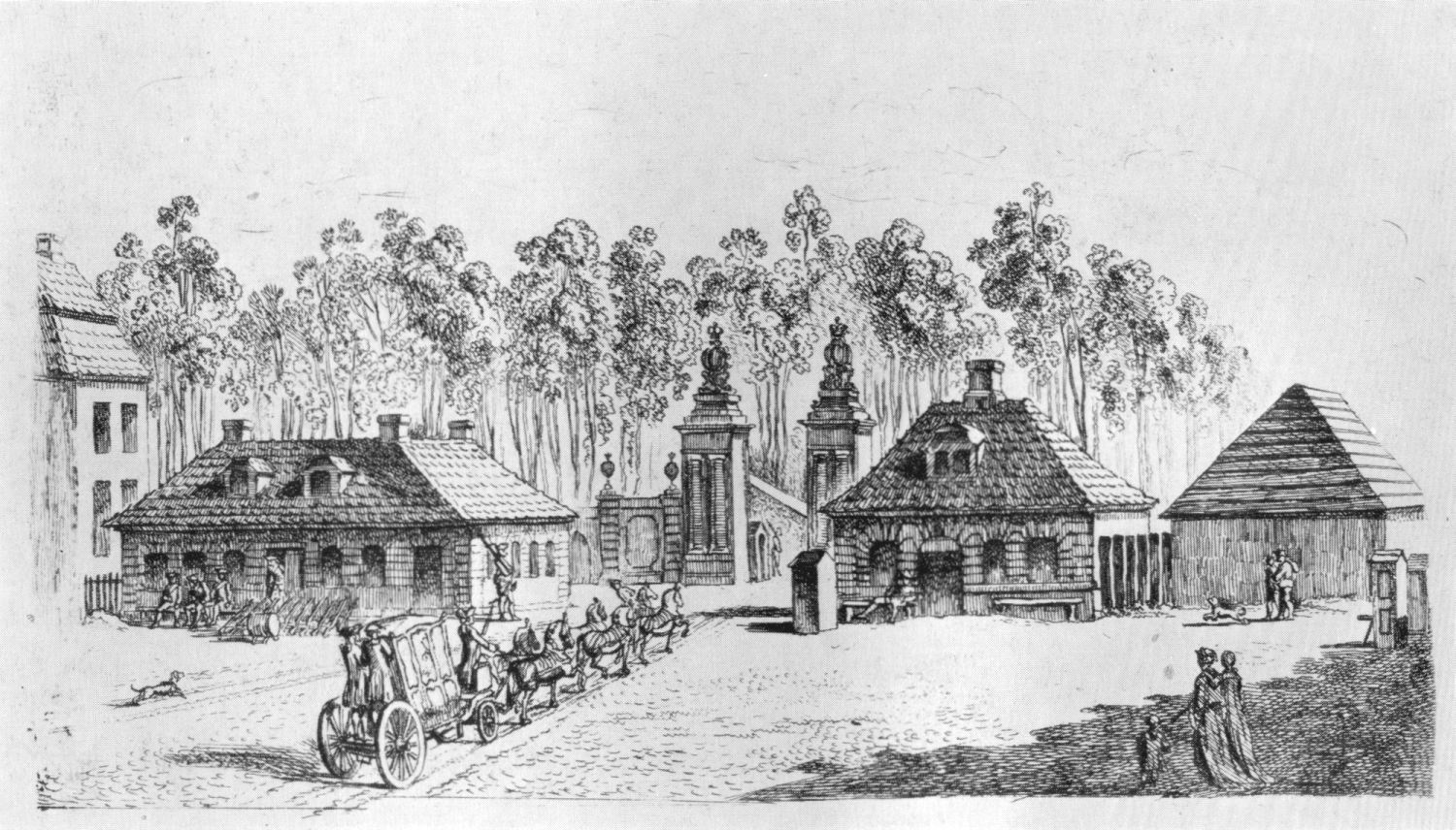 Brandenburger Tor design of Philipp Gerlach, existing from 1735 to 1788.